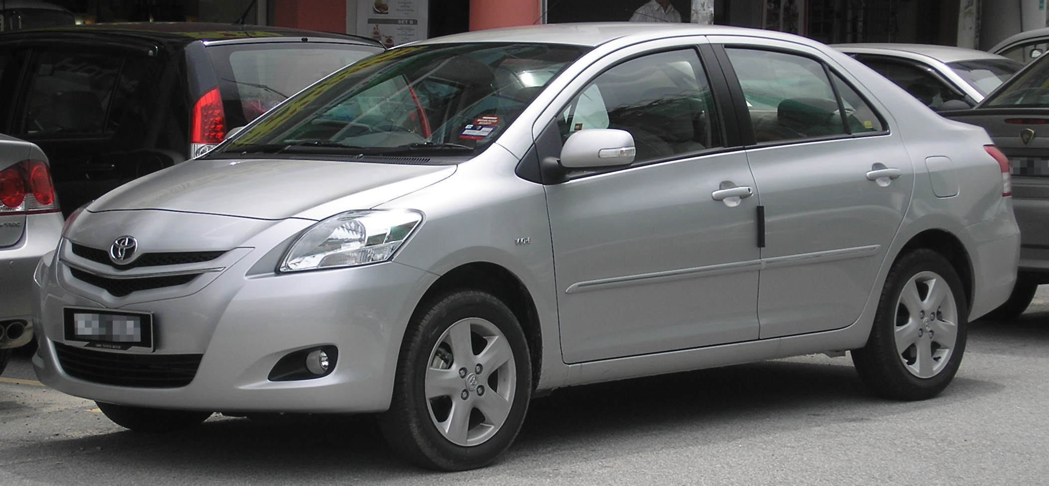 Front quarter view of a second generation Toyota Vios (1.5G), in Serdang, Selangor, Malaysia.